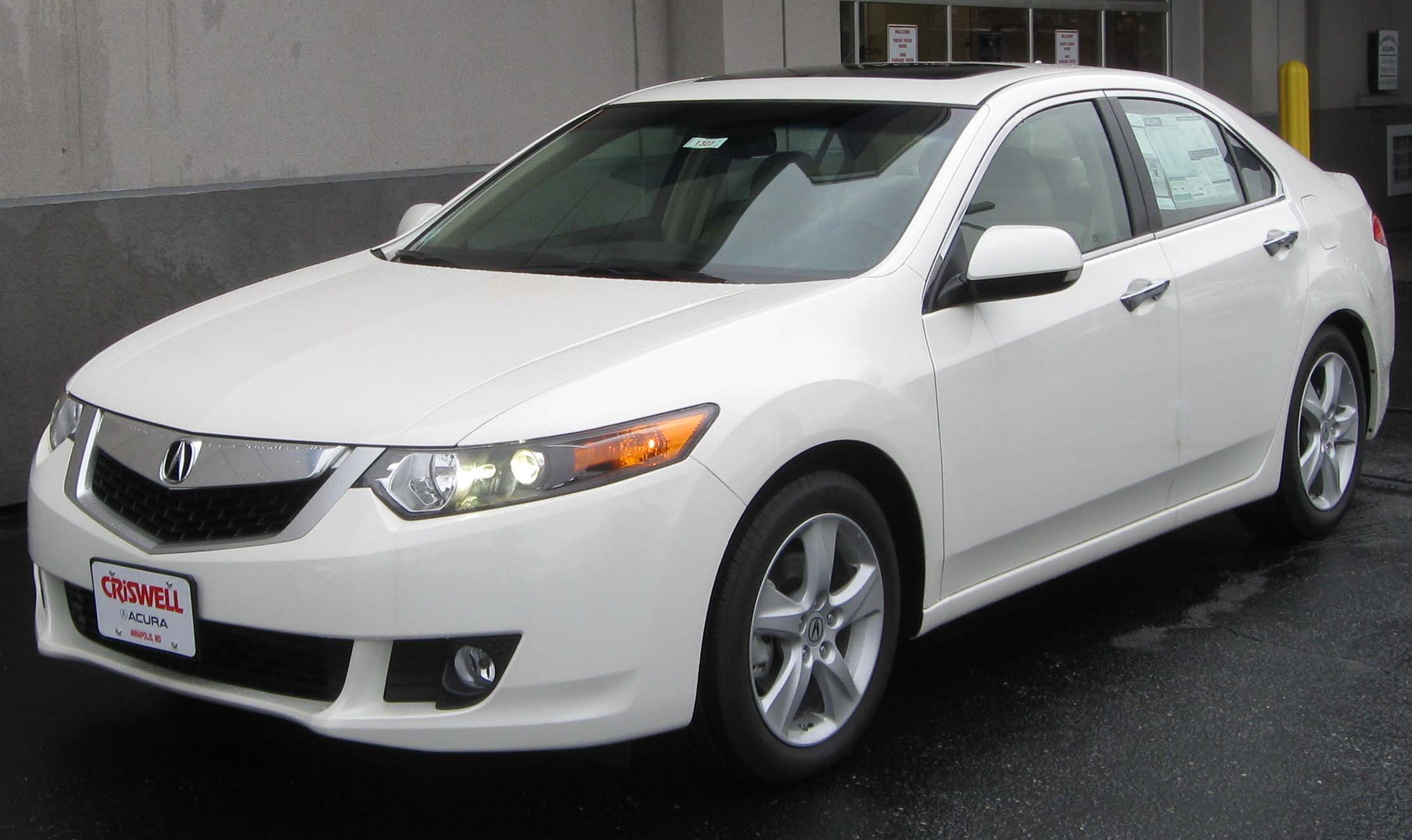 2010 Acura TSX photographed in Annapolis, Maryland, USA.